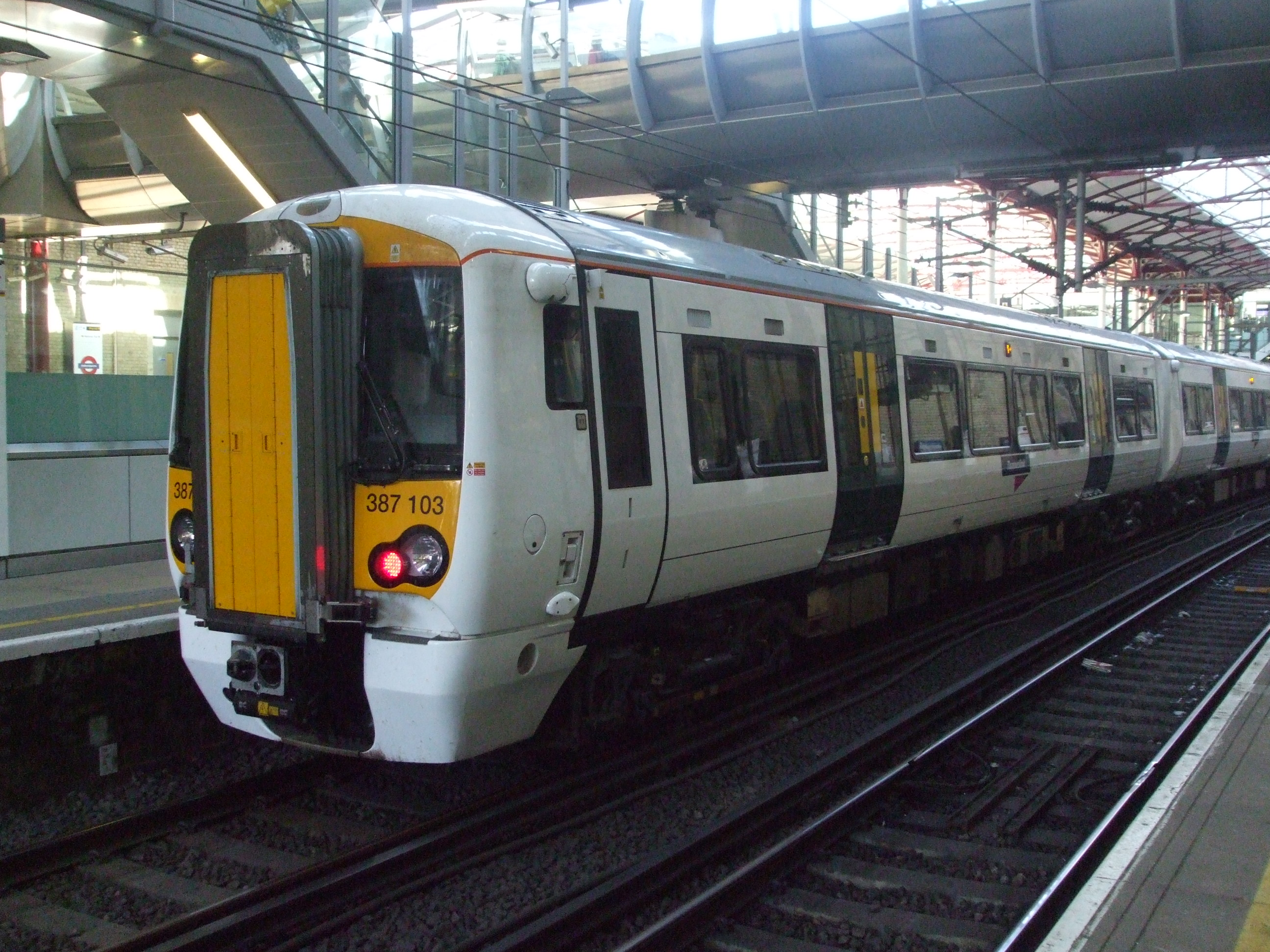 Class 387 unit 387103 calls at Farringdon with a southbound service